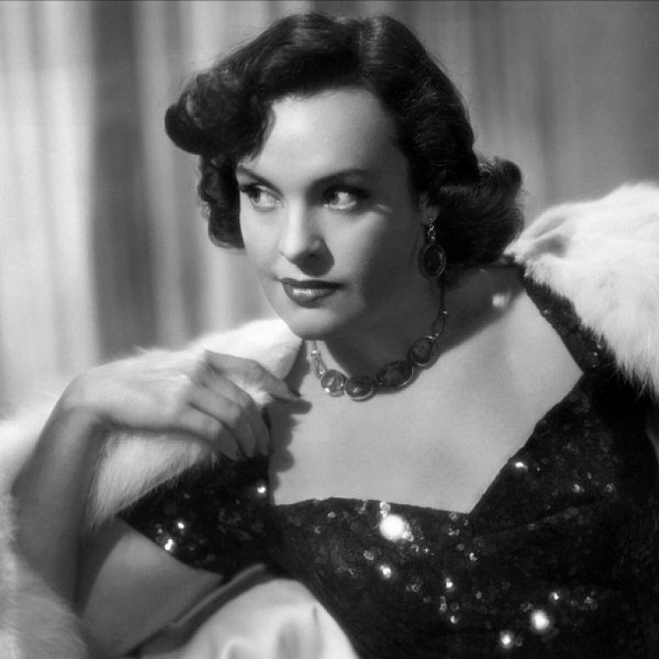 A portrait of the actress Elli Parvo.